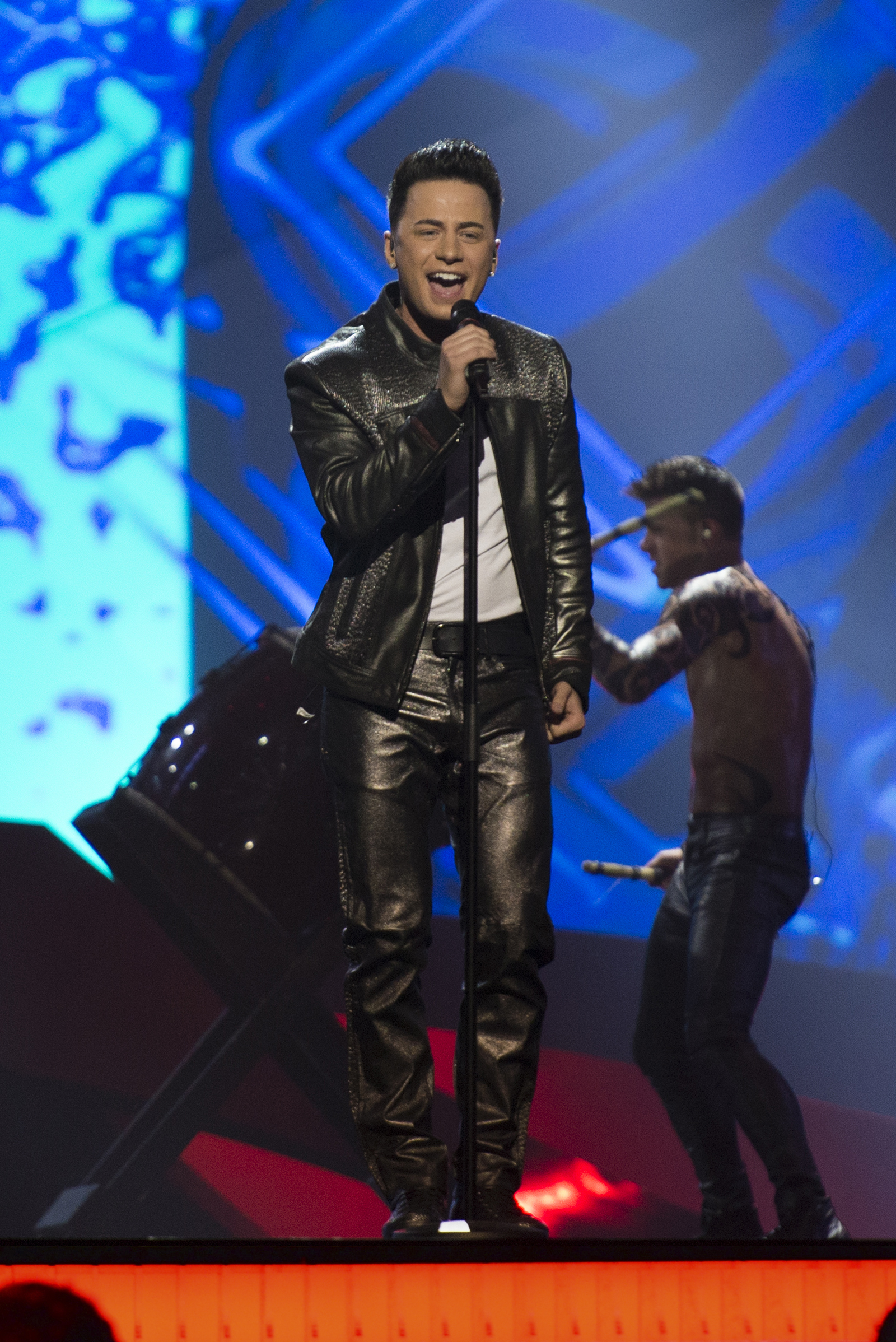 Ryan Dolan representing Ireland with the song "Only Love Survives" during the first dress rehearsal of the first semi final of the Eurovision Song Contest 2013 in Malmö. (Help translate this text)